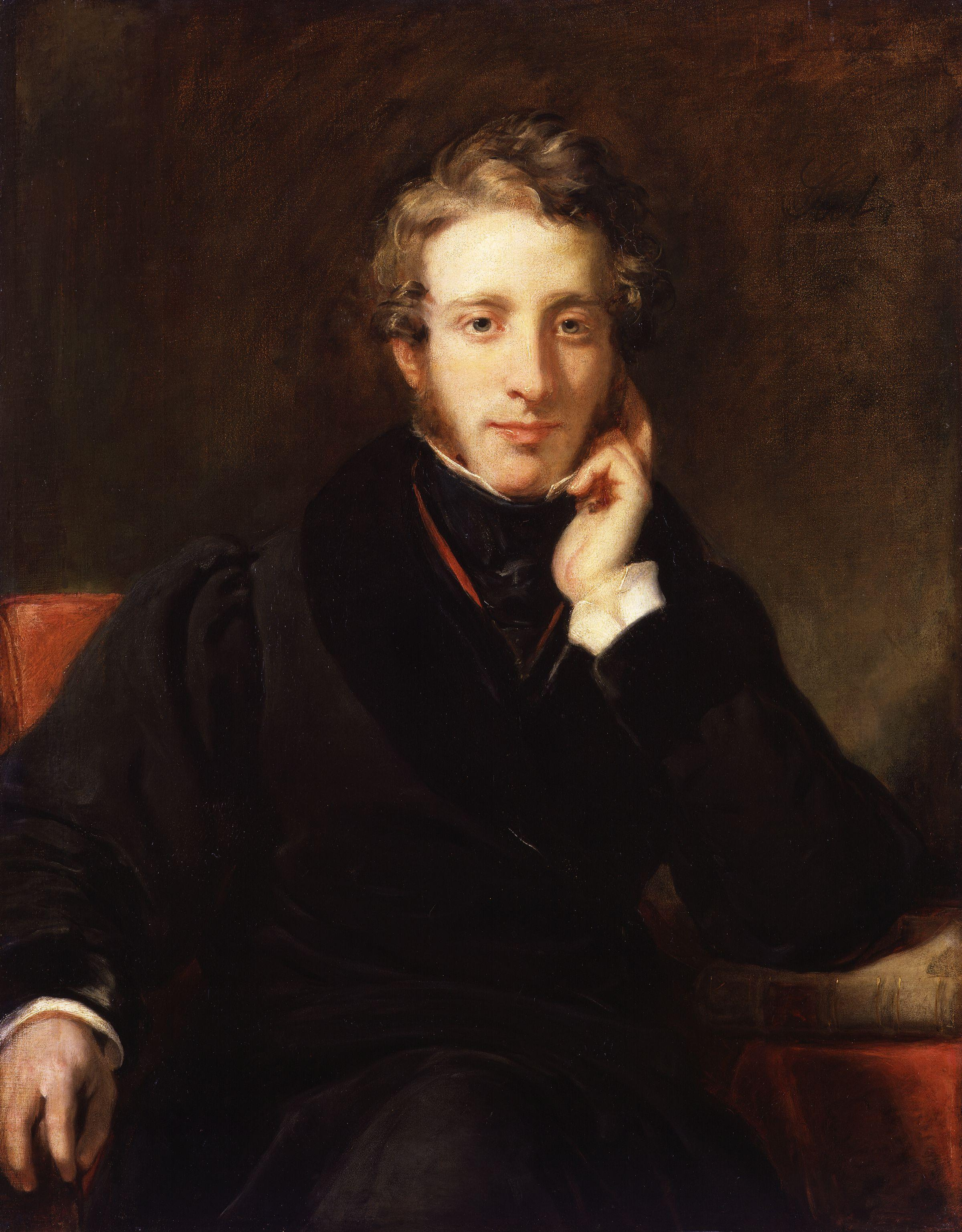 All images in this batch have been confirmed as author died before 1939 according to the official death date listed by the NPG.